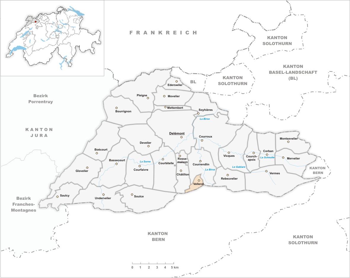 Municipality Vellerat